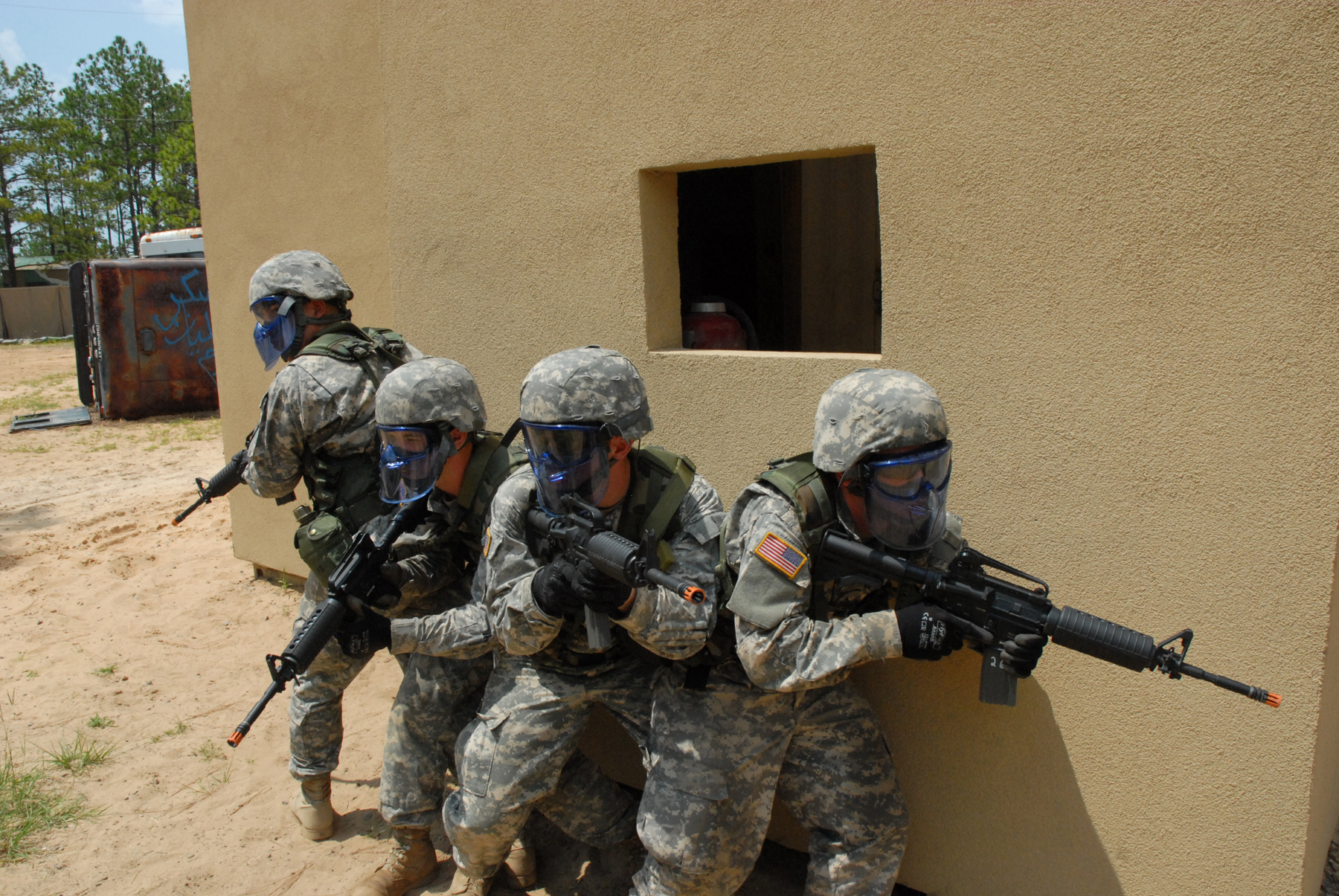 Soldiers with the 187th Ordnance Battalion prepare to clear a room during urban combat training at the battalion's Field Training Exercise site. The Soldiers are armed with Airsoft weapons as part of a pilot program, which, if successful, could be implemented throughout the Army. Photo by Steve Reeves, Fort Jackson Leader See more at Airsoft adds hard edge to combat training